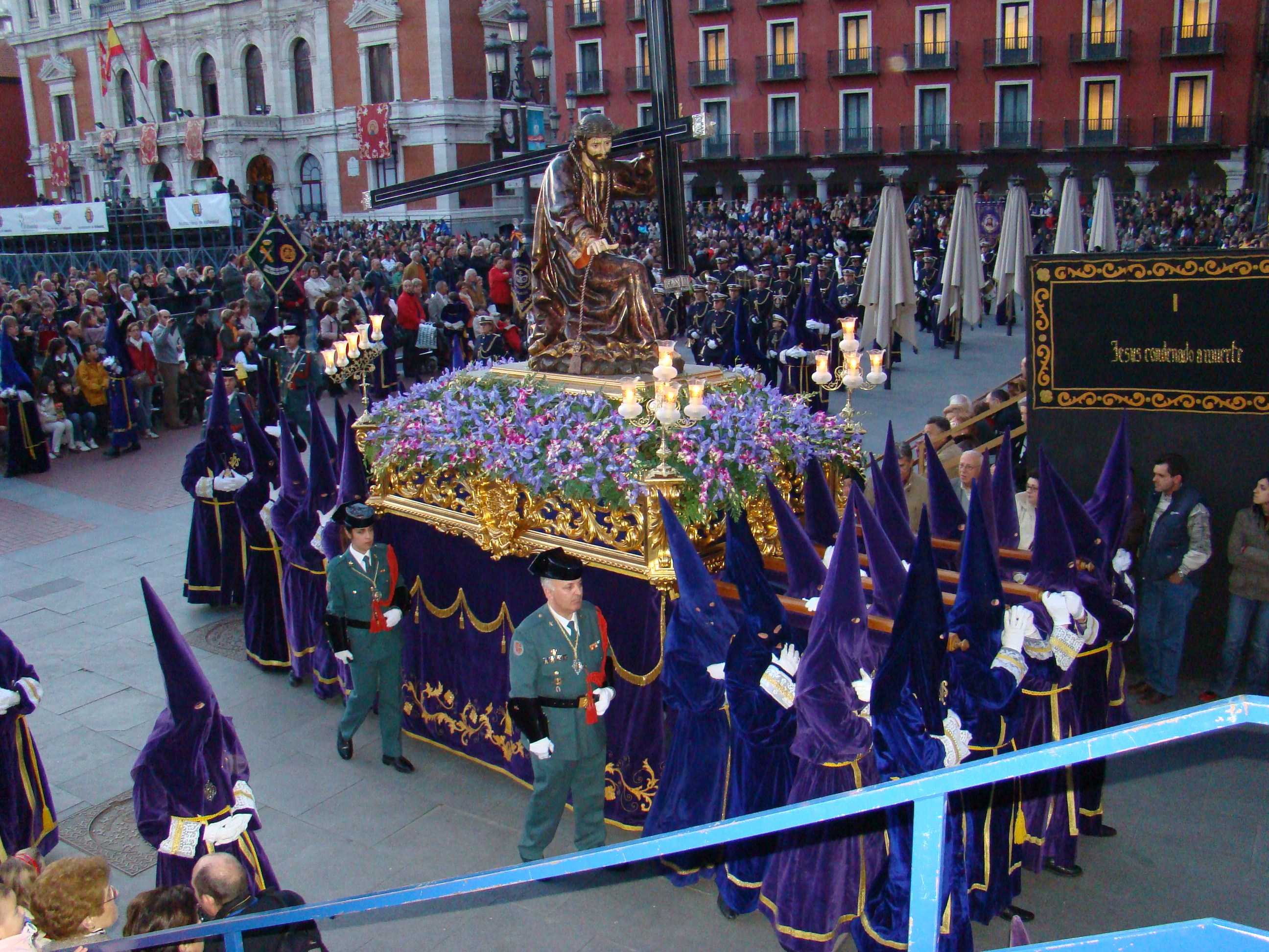 Holy Week in Valladolid, Spain. Religious brotherhood (cofradía) of Jesus Nazerine during the procession of Holy Wednesday named Processional Via Crucis on its way to the Main Square. Sculpture of Jesus Nazerine by the Castilian School, before 1662. It is attributed to Alonso de Rozas, Pedro de la Cuadra and Juan Antonio de la Peña, but there are no documents to prove it.